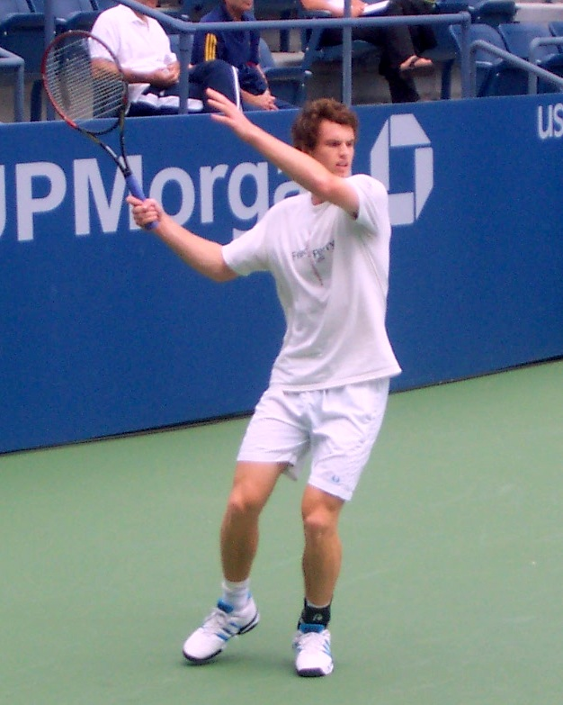 Andy Murray practicing at the 2007 US Open while coach Brad Gilbert watches.